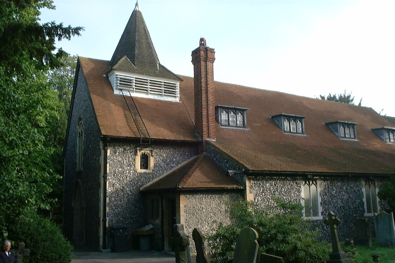 St Mary's church, Merton